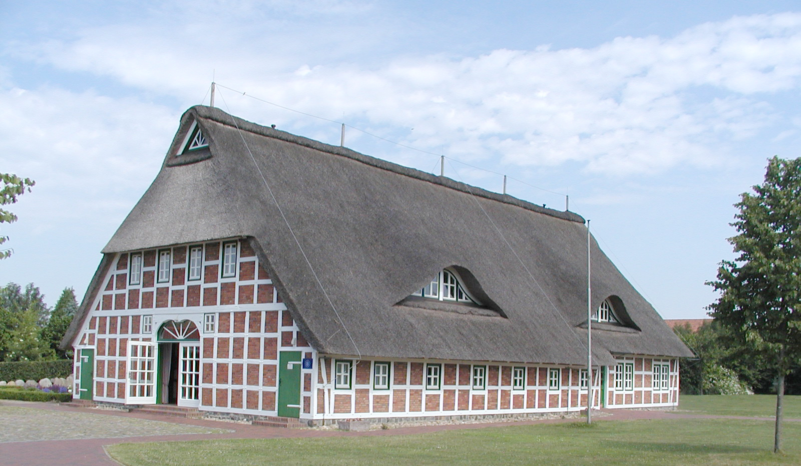 The Bördehuus, a rebuilt Fachhallenhaus.